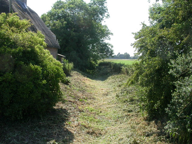 Winterborne Muston, River Winterborne One of two Dorset rivers bearing this name, this is the North Winterborne. Winterbornes flow in winter, fed by aquifers, and often dry out in summer. They can often be distinguished by the aquatic or marginal vegetation growing in their dry beds in the summer. Here, the river is invisible. To the left, Bridge Cottage. Interestingly, OS shows this location as a ford, whereas it is a bridge.